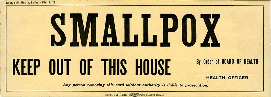 A Board of Health quarantine poster warning that the premises are contaminated by smallpox.